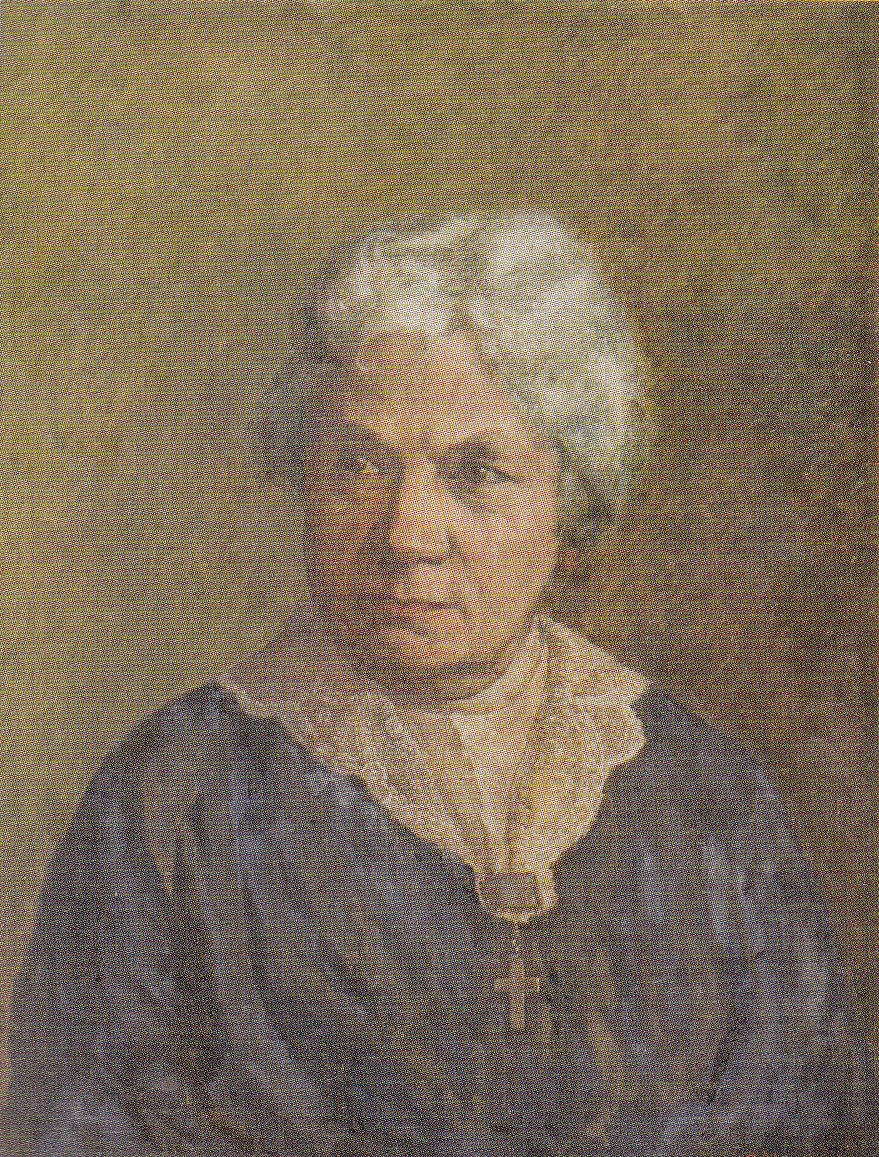 Portrait of Dutch writer Nellie van Kol, by C.A.F.(1931). Location in 2016: Nederlands Letterkundig Museum, The Hague (the Netherlands)